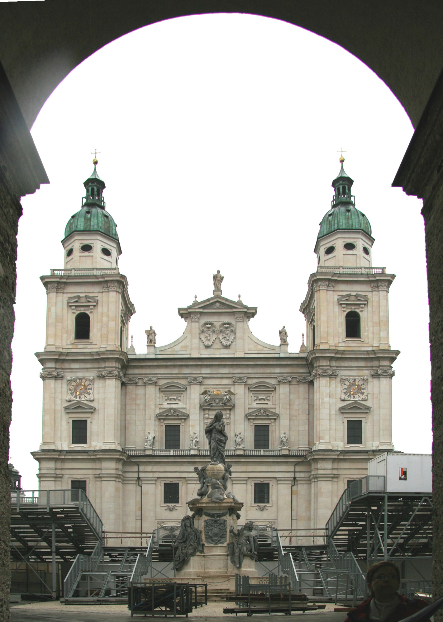 Viev on Salzburg Cathedral, city of Salzburg (state of Salzburg); in front: the stands for the spectators of the Jedermann play during Salzburg Festival each summer.